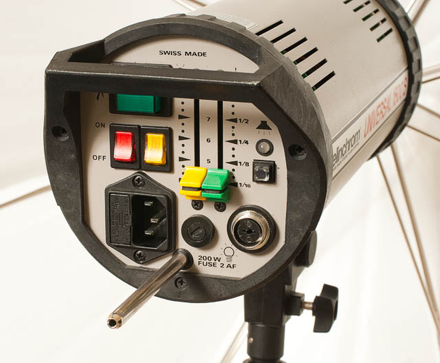 Rear view of an Elinchrom 1500S flash unit, showing an umbrella protruding.